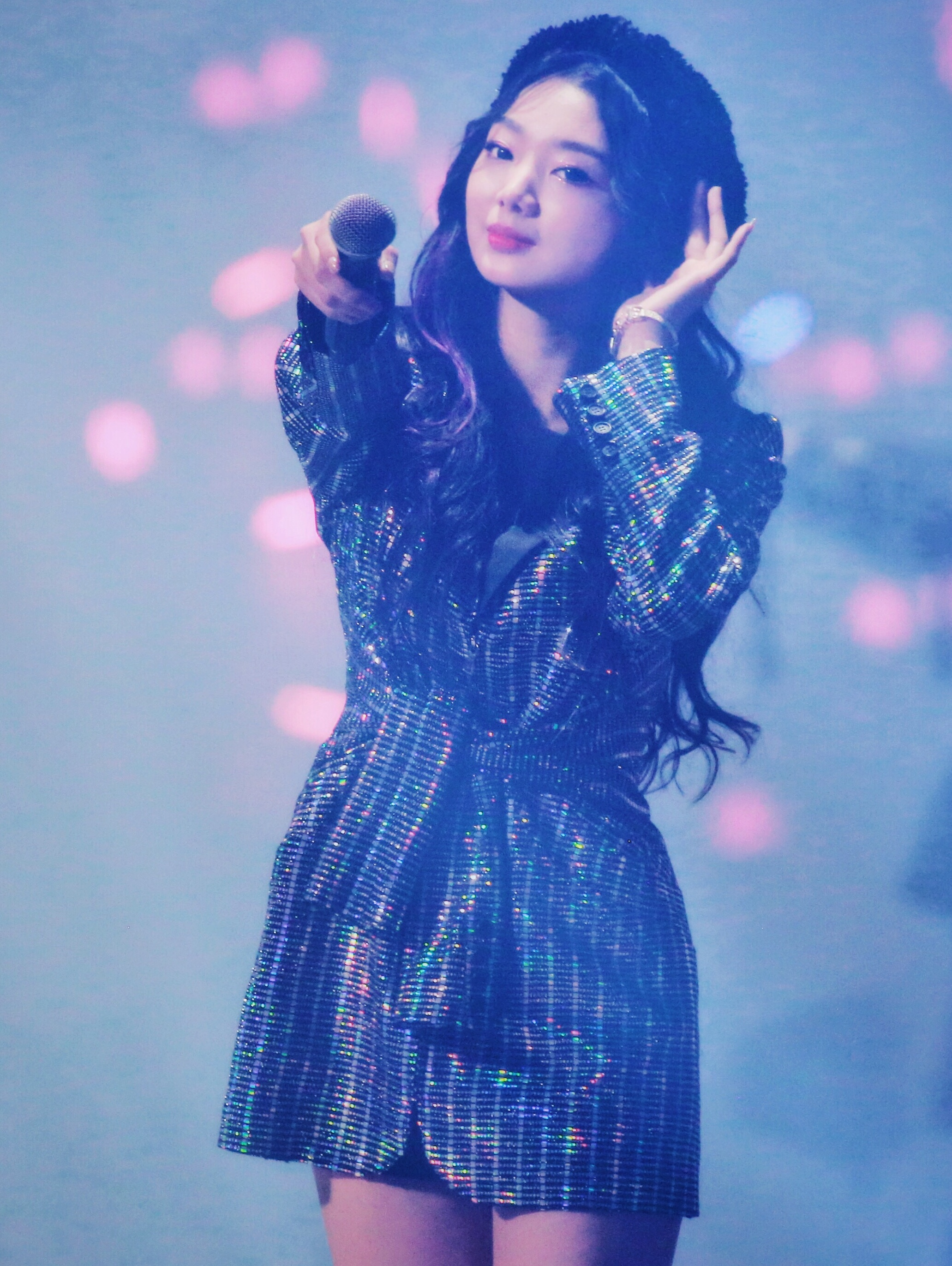 Mimi Lee,at the "2019 Rocket Girls 101 Flight Concert LIGHT · Beijing",Beijing Cadillac Arena, February 23,2019.